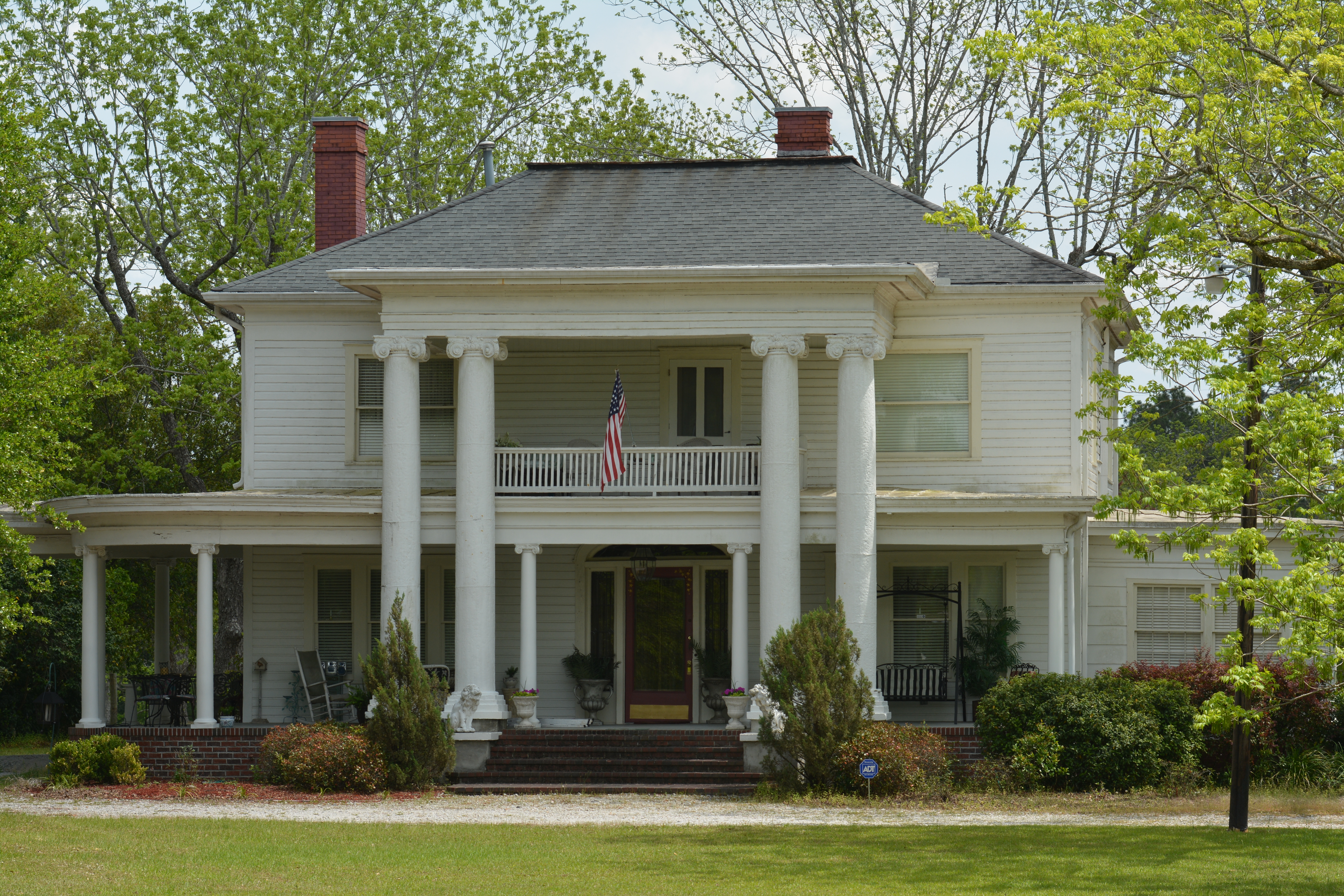 Twin City Historic District, Twin City, Georgia, U.S. 921 5th Ave.